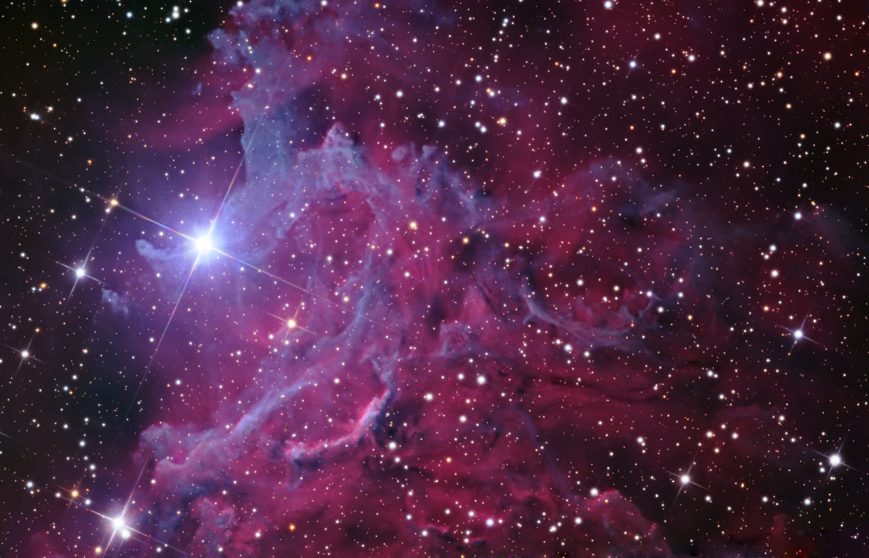 Deep exposures of Nebulae using the 0.8m Schulman Telescope at the Mount Lemmon SkyCenter Credit Line & Copyright Adam Block/Mount Lemmon SkyCenter/University of Arizona